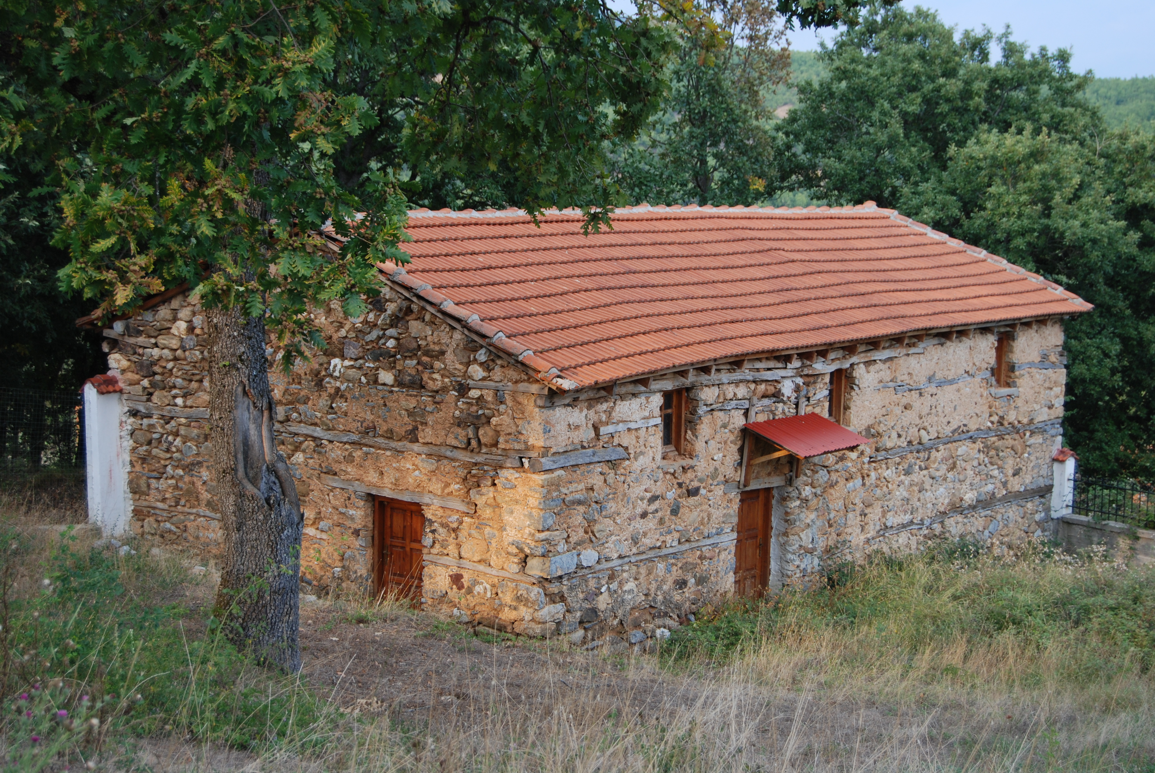 Old chapel at Gavros/Gabresh, Greece